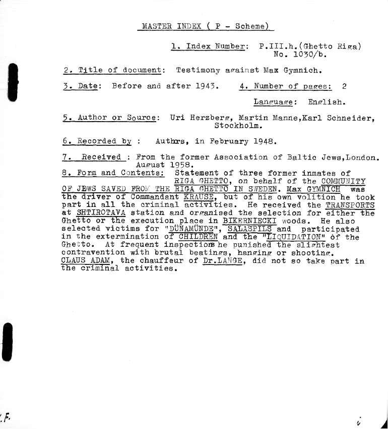 Testimony by three jewish eye-witnesses against Max Gymnich, officially "chauffeur" of the commander of the Ghetto Riga.